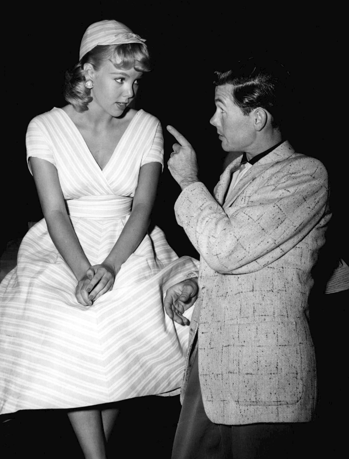 Photo of actress Jana Lund and Johnny Carson from The Johnny Carson Show. This was Carson's first entry into a network talk show of his own.